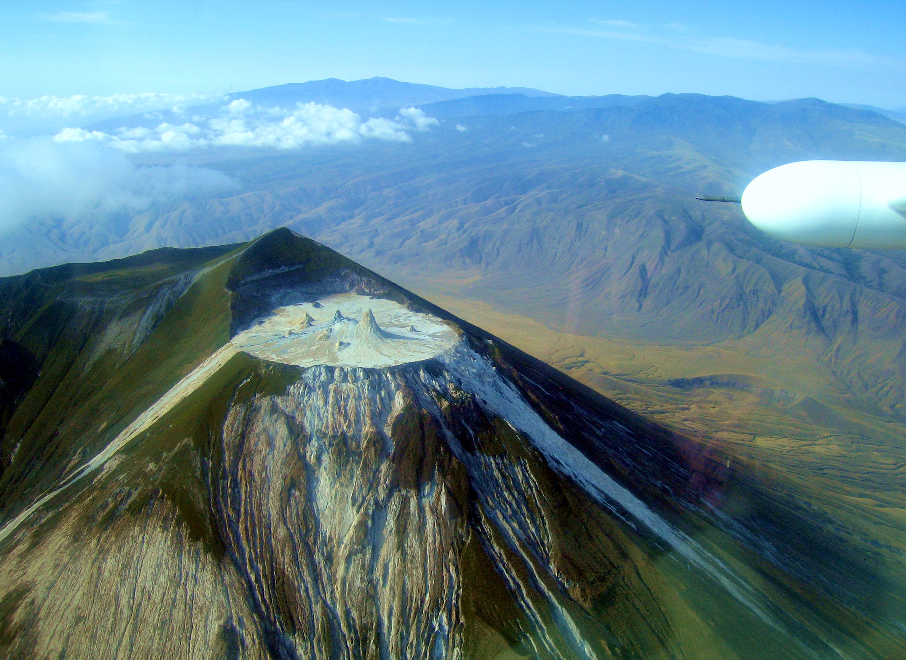 Taken from co-pilot seat en route Arusha from Serengeti